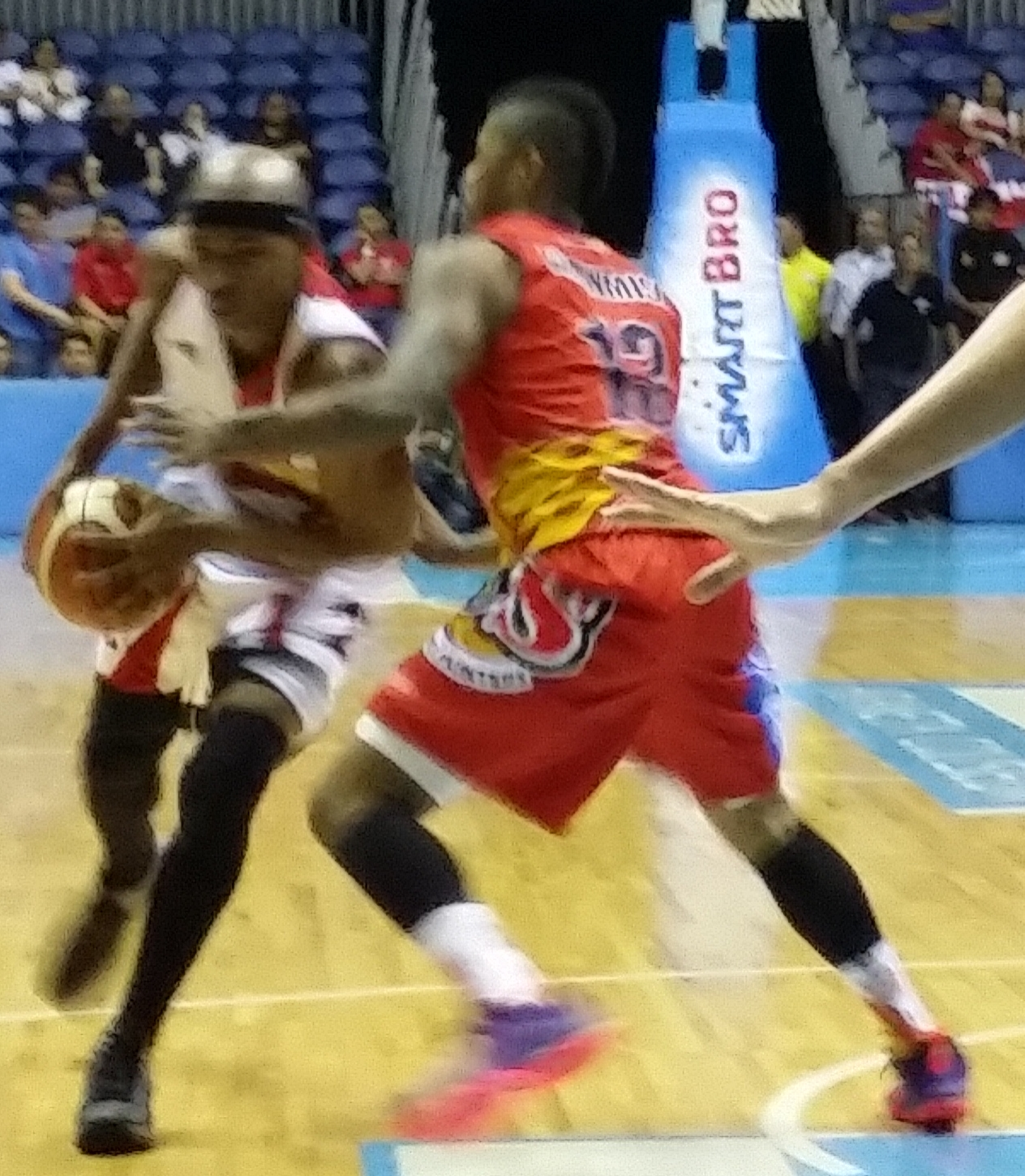 PBA - Rain or Shine vs San Miguel - Gabby Espinas-San Miguel - 2016-0107